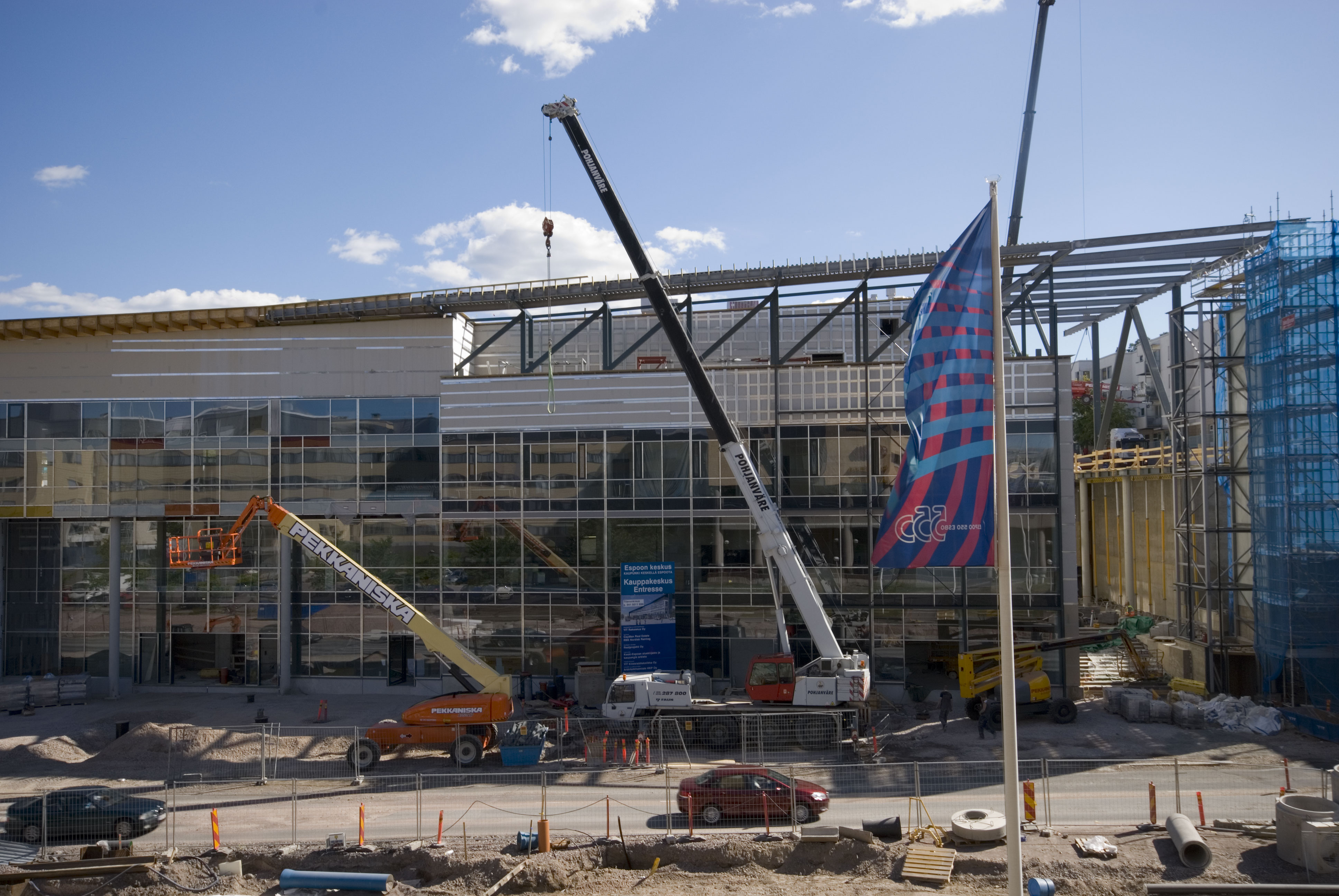 Shopping centre Entresse under construction in Espoo, Finland